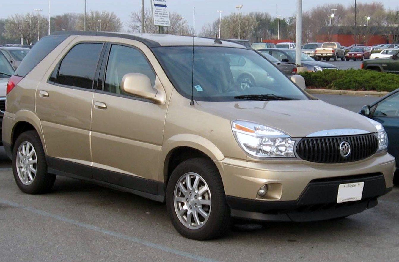 2004-2007 Buick Rendezvous photographed in USA.